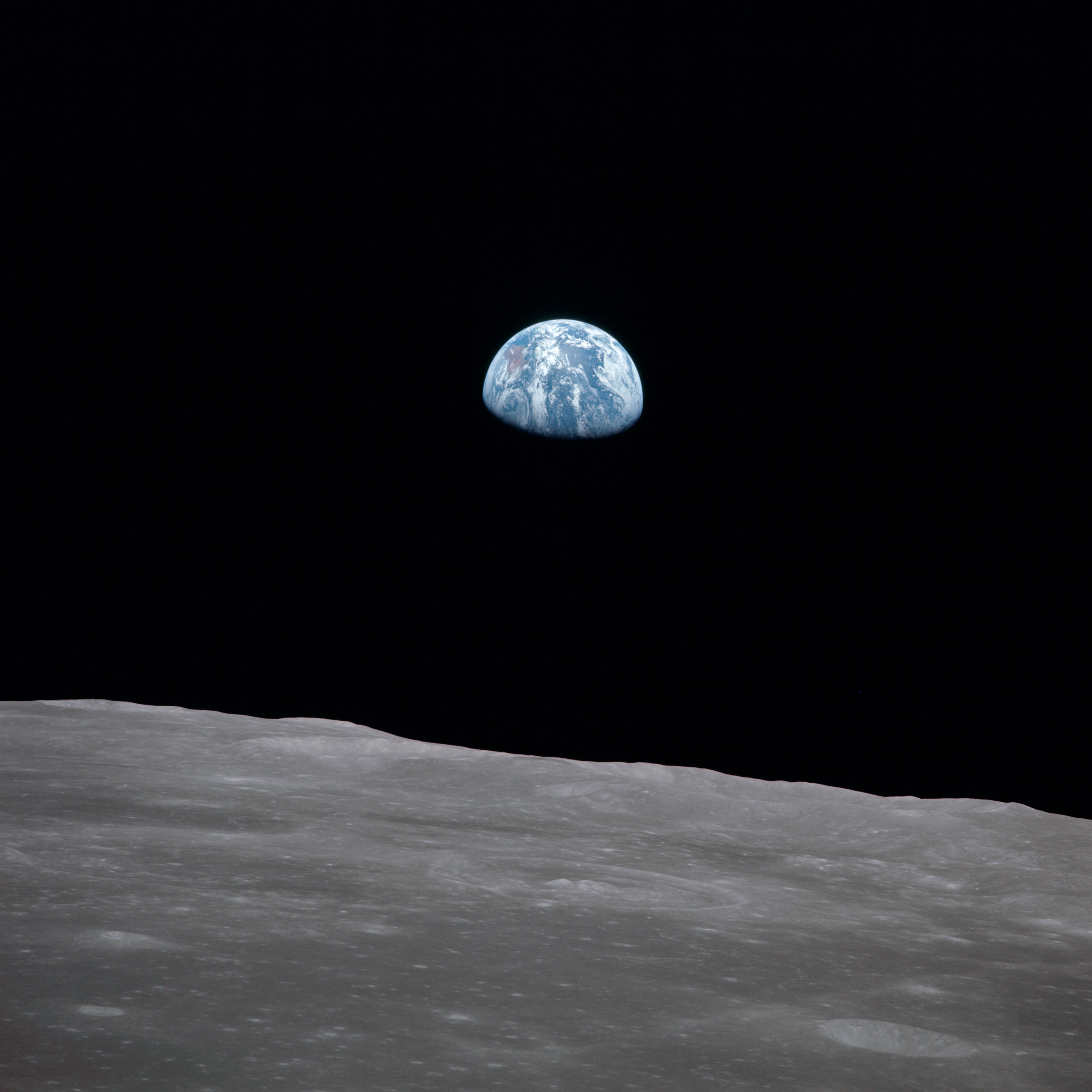 View of Moon limb with Earth on the horizon, Mare Smythii region. This image was taken before separation of the Lunar Module and the Command Module during the Apollo 11 mission.